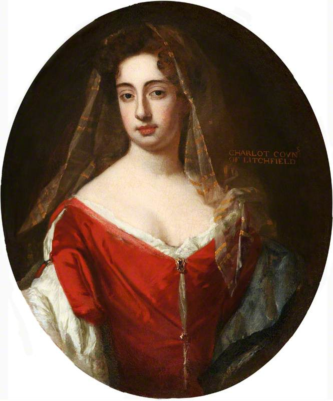 A 76 x 63.5 cm oil-on-canvas portrait painting of Charlotte Lee by Godfrey Kneller held at Hatchlands Park